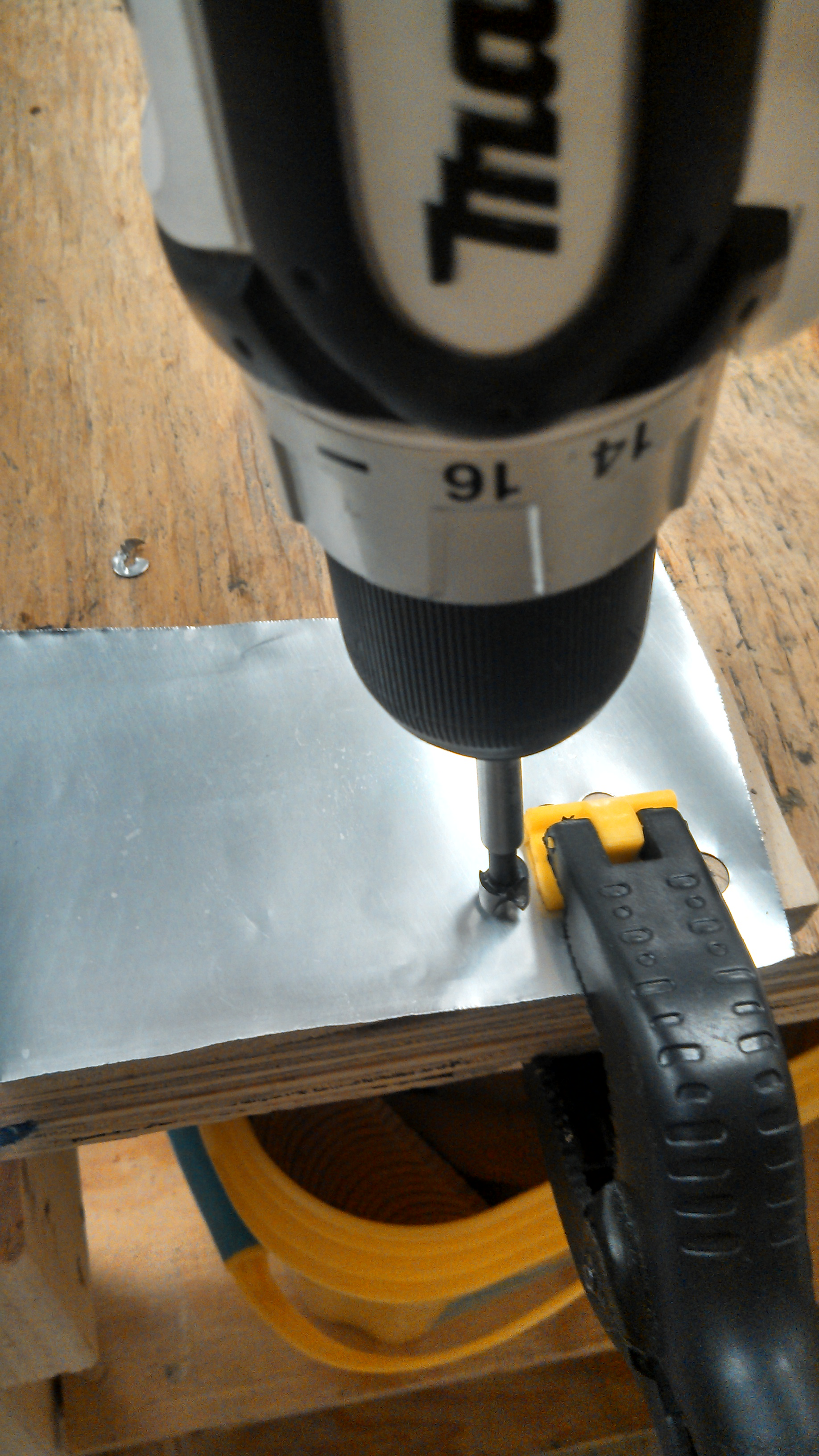 drilling